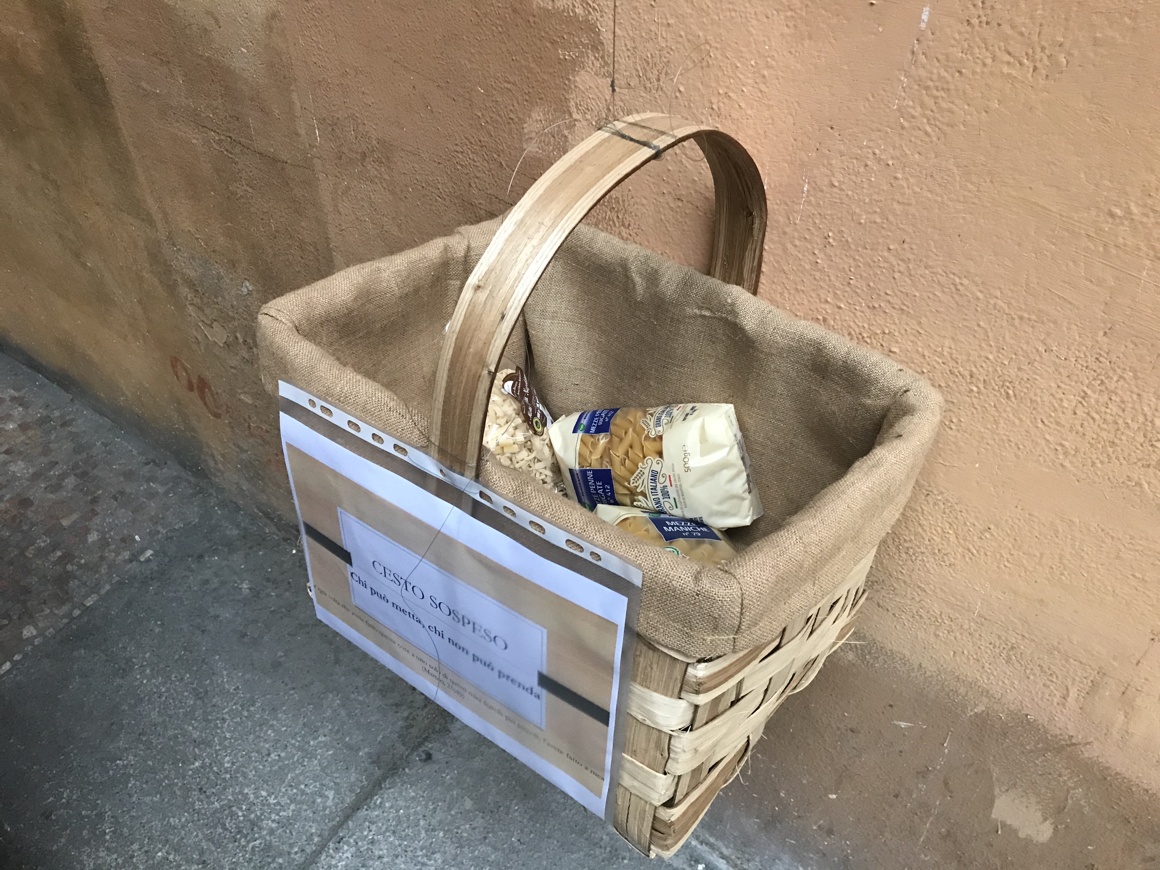 A food basket for the needy hung in Bologna, Italy, during the COVID-19 crisis in April 2020